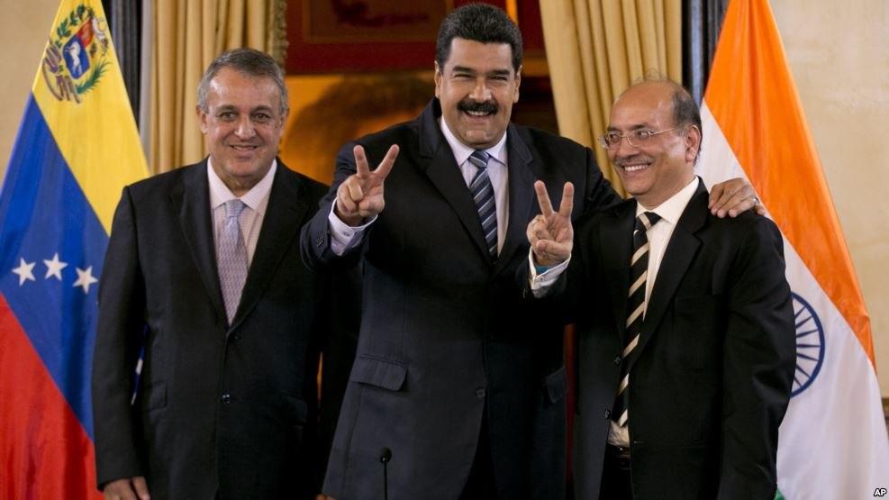 Venezuela's President Nicolas Maduro, center, and Executive Director of Oil and Natural Gas Corporation, Narendra Kumar Verma, flash victory hand signs as they pose for a photo in Caracas, Venezuela, Nov. 4, 2016. At right is PDVSA President Eulogio Del Pino.